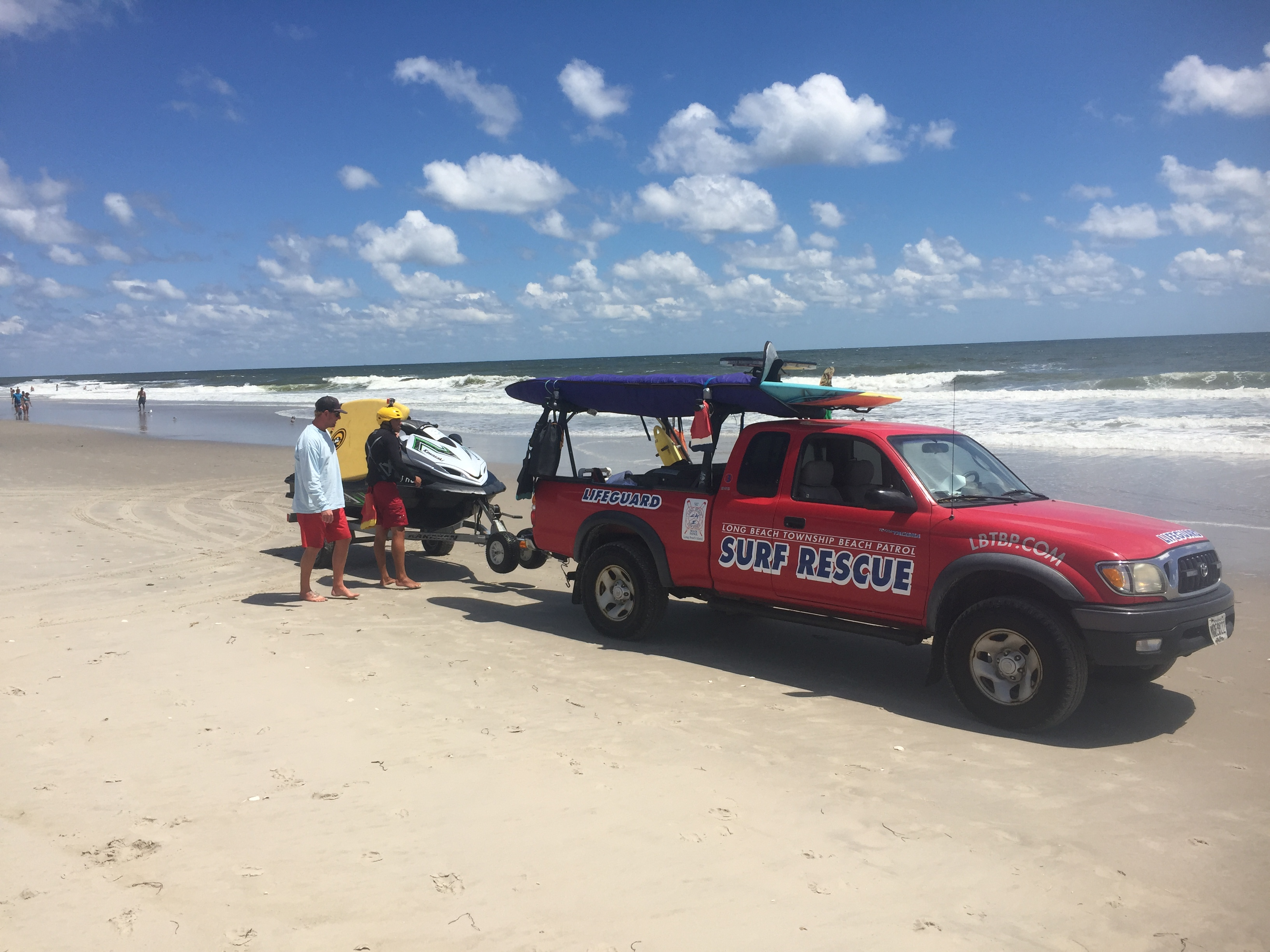 LBT truck with their jetski